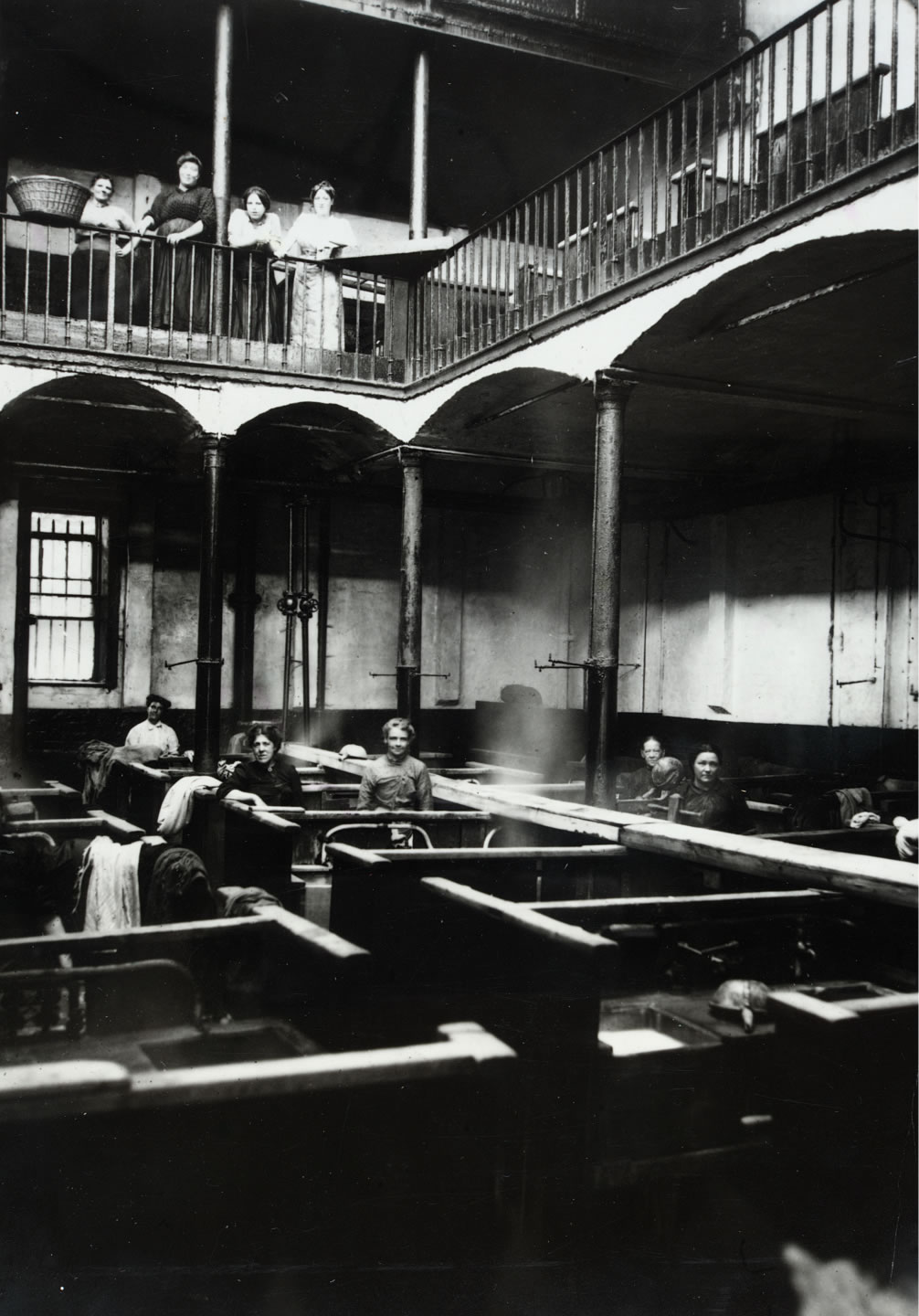 1914 INTERIOR OF UPPER FREDERICK STREET WASH HOUSE